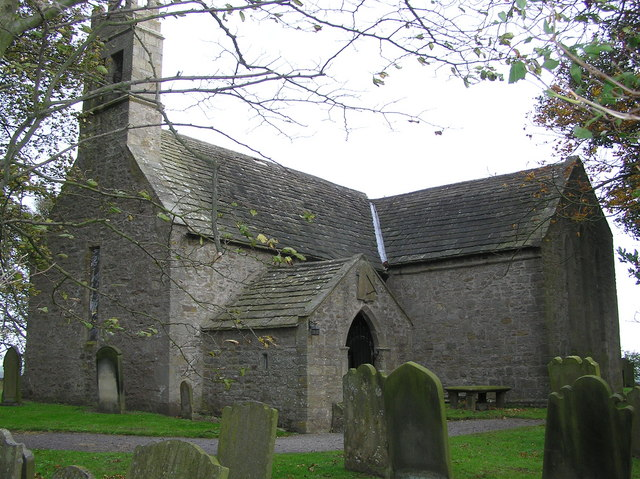 St James' parish church, Hamsterley, County Durham. Half a mile north of Hamsterley village. The Church has a 12th-century Norman doorway. The rest of the buildings is late 13th-century. A stone in the porch reads; 'Restored in the 60th year of the Revd J.G.Milner's incumbency AD 1864'. The church register dates from 1588.